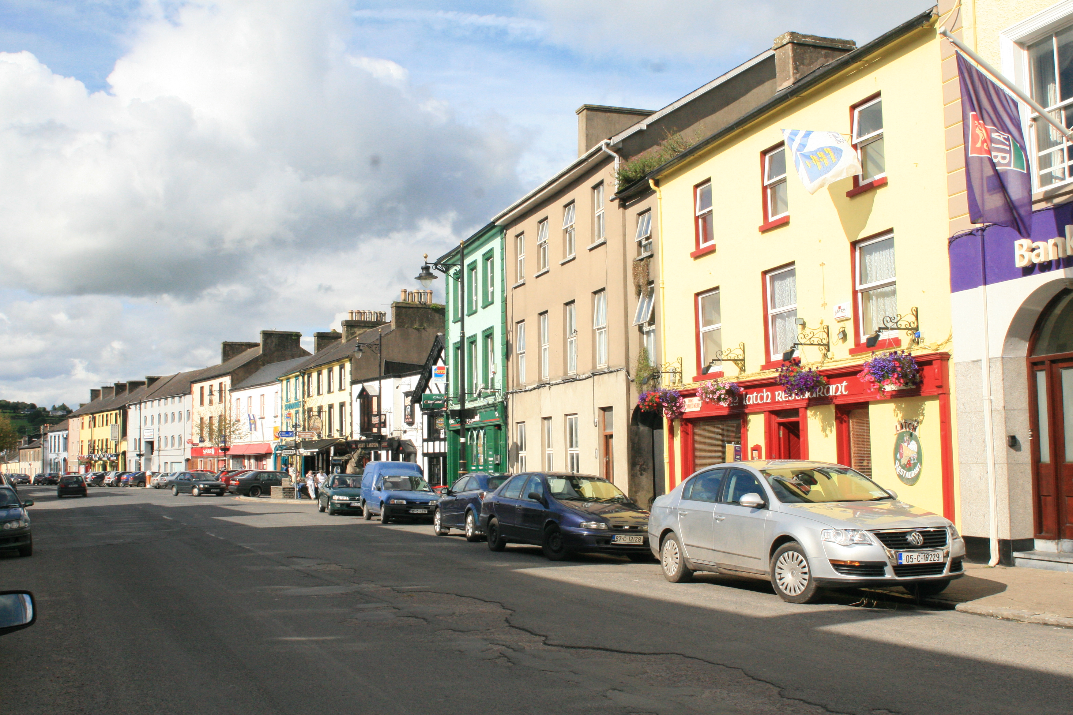 Tallow, County Waterford, Ireland Main Street as seen from the south